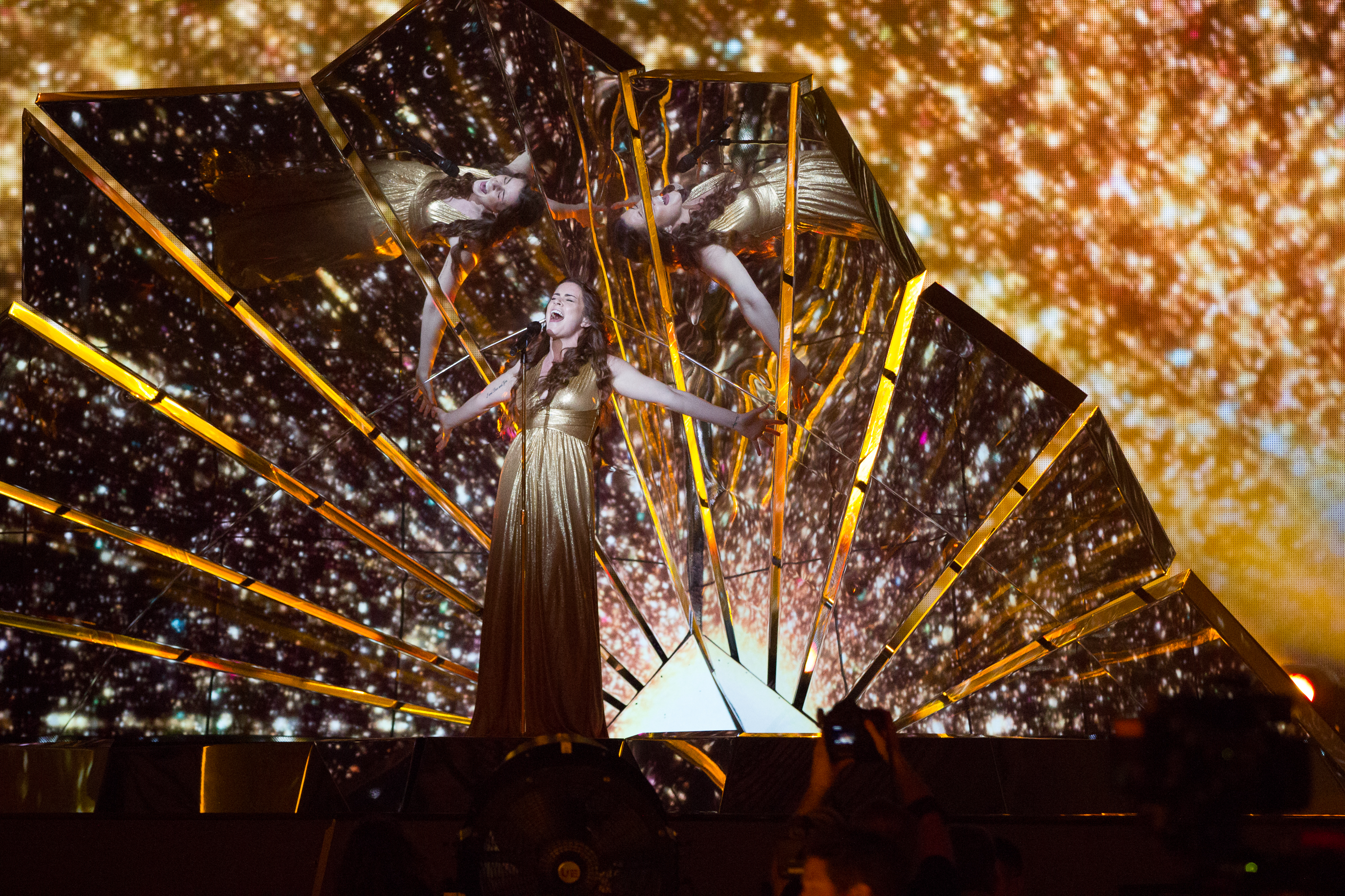 United Kingdom 2017 - First Semi-Final Dress rehearsal